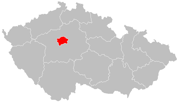 Locator map of Prague from 2004